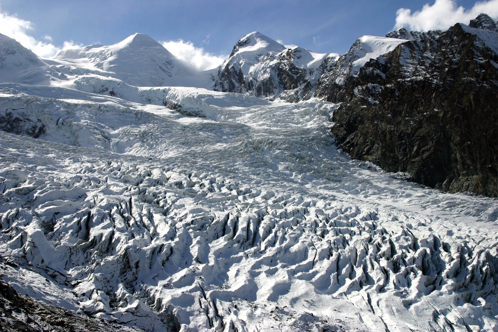 Summit of Castor and Pollux above the Grenzgletscher (glacier)